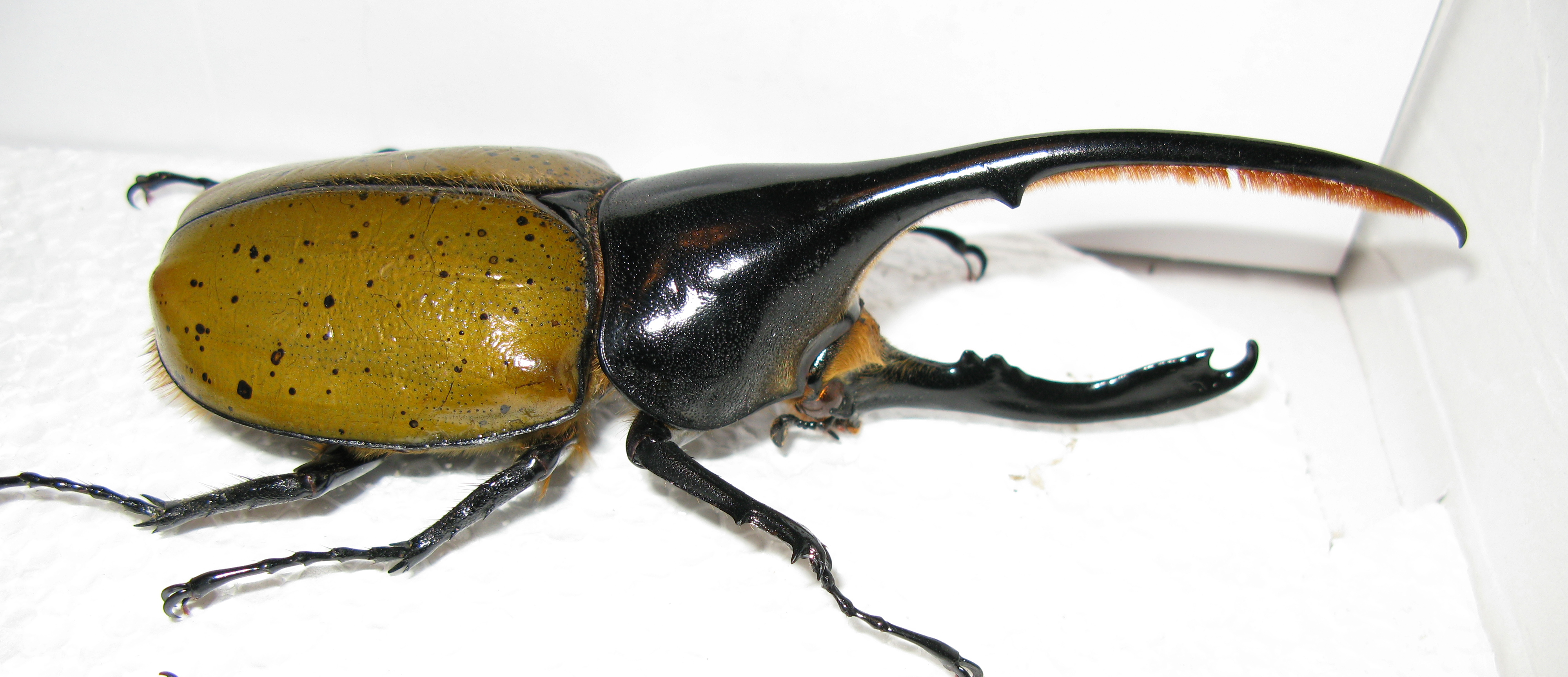 Dynastes hercules lichyi (male) 144 mm